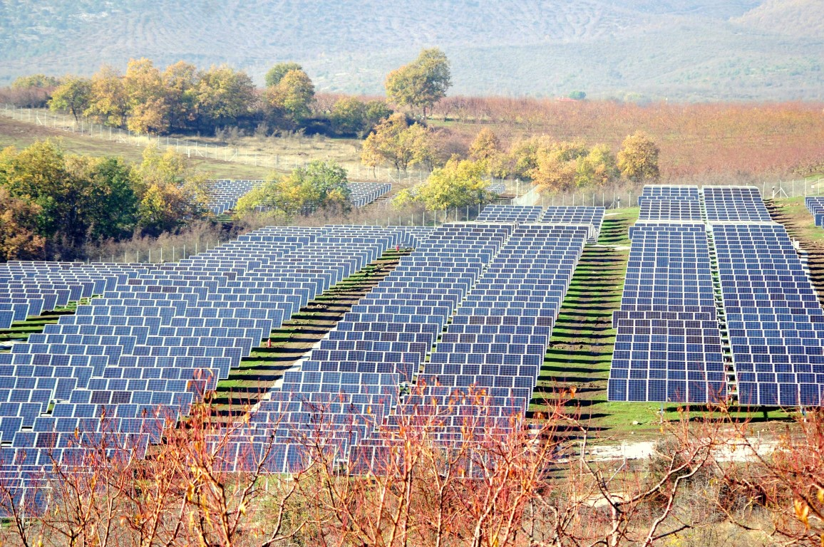 Horizontal single axis tracker worth 8MW in Greece